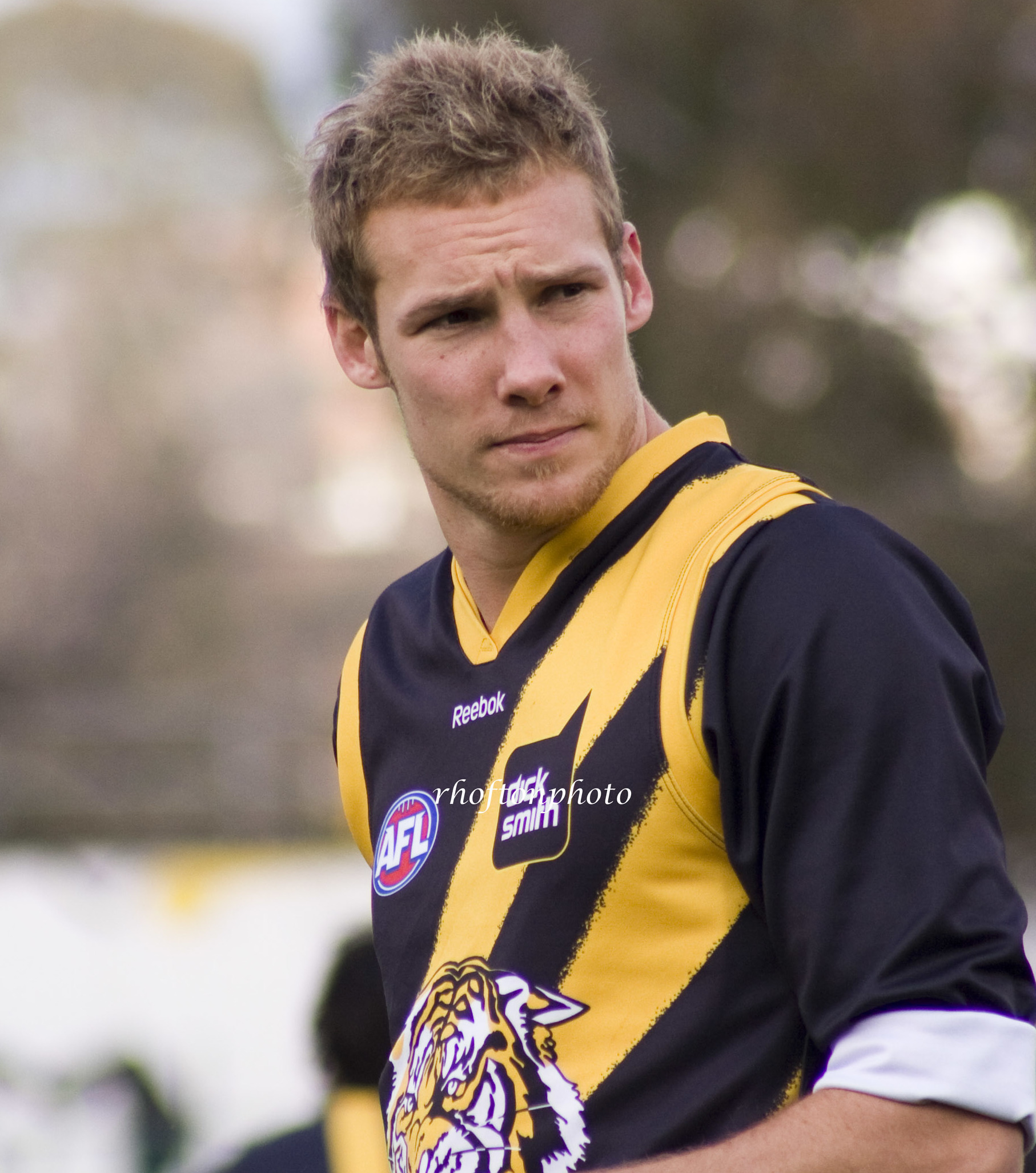 Luke McGuane, Richmond Training session August 1st 2009